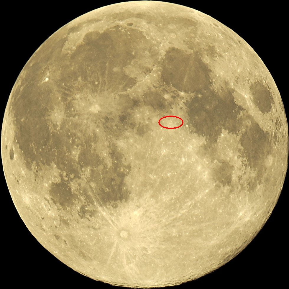 Location of crater Agrippa on the Moon